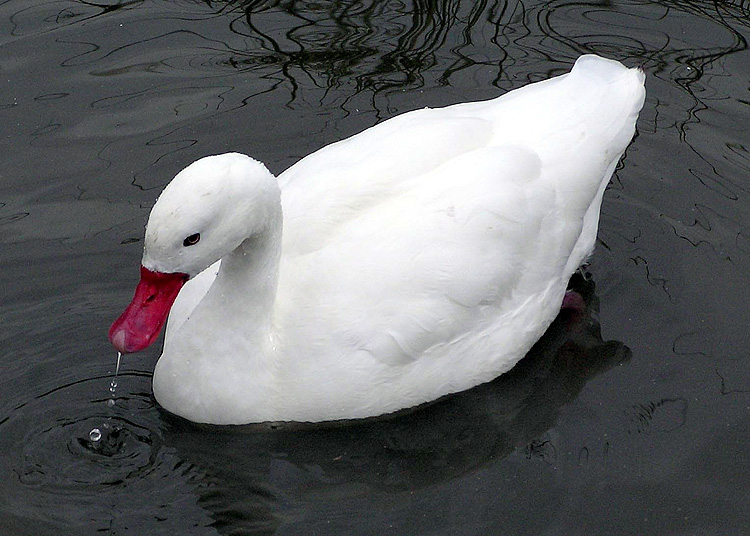 Coscoroba Swan at Slimbridge Wildfowl and Wetlands Centre, Slimbridge, Gloucestershire, England.